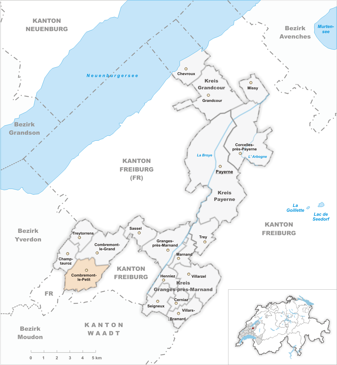 Municipality Combremont-le-Petit